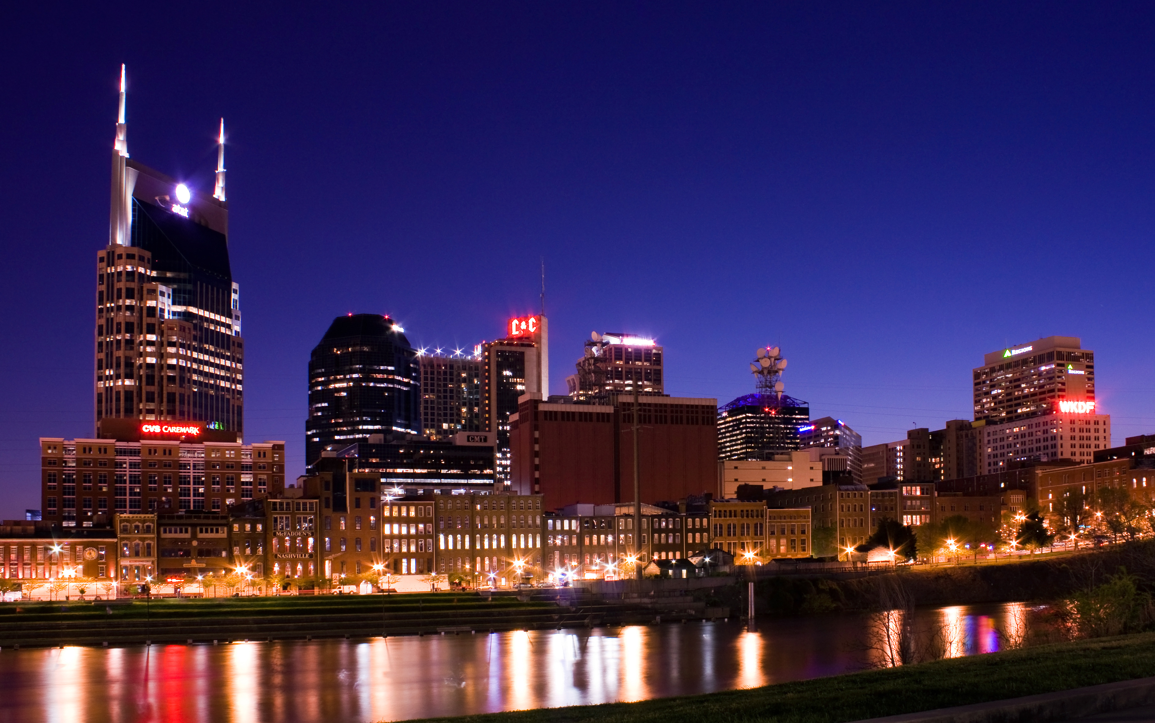 Skyline of Nashville, Tennessee taken from east bank of Cumberland River